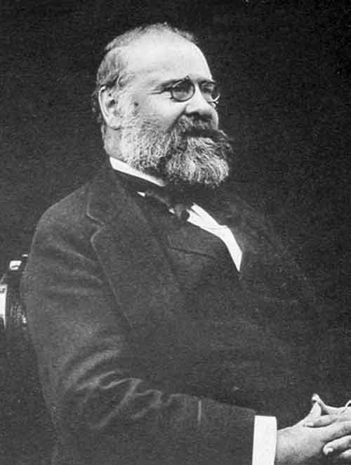 Picture of Georges Rayet, the French astronomer - This is a slightly-cropped version of the one in The Astrophysical Journal, vol. 25, p. 53, 1907